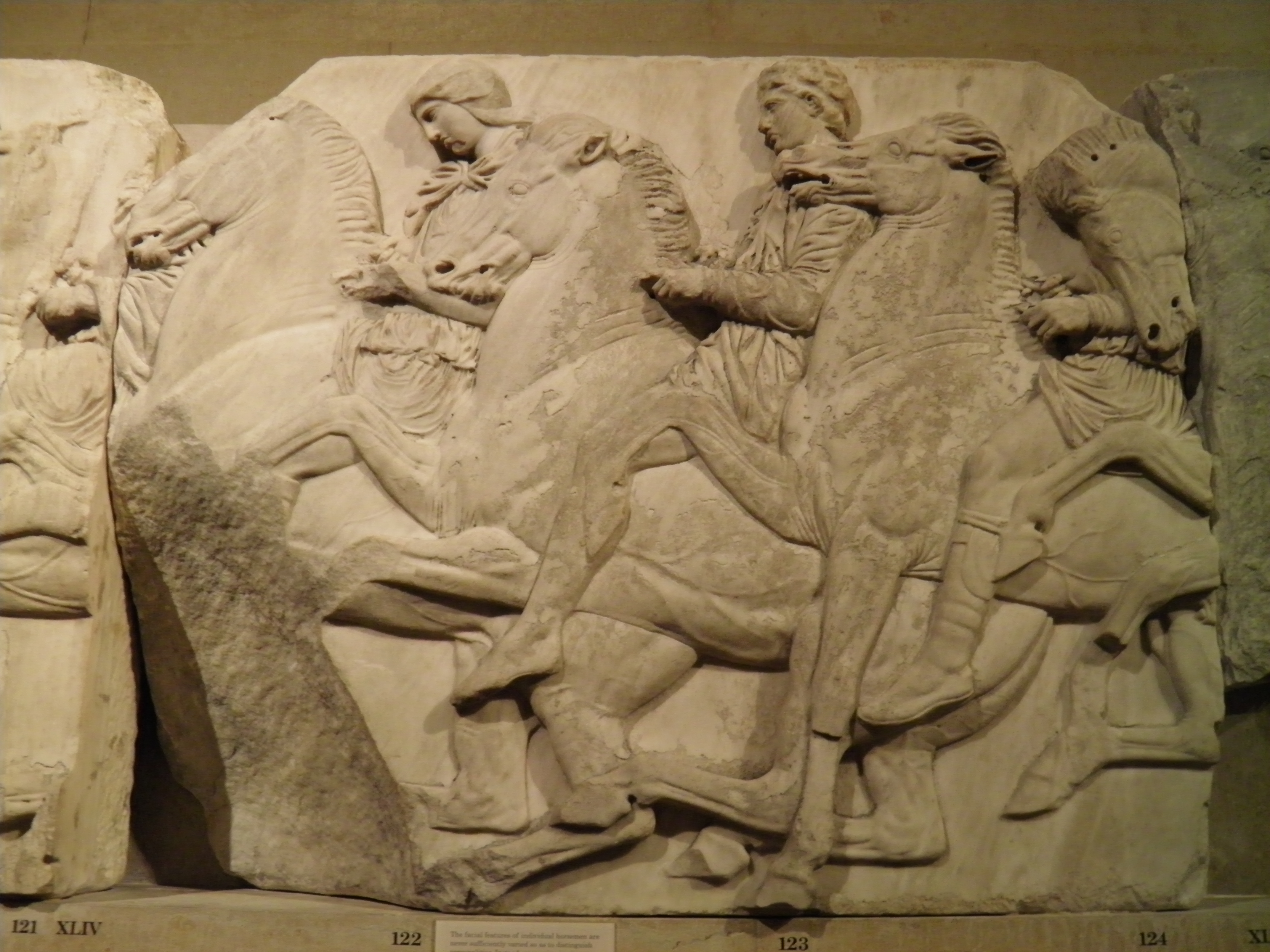 British Museum